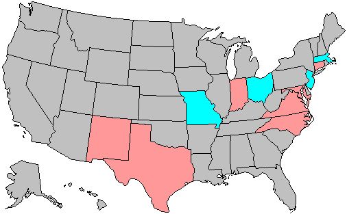 Summary of party change of U.S. house seats in the 1968 House election. Stripes indicate a tie between the gains of two or more parties. Legend: 6+ Democratic seat pickup 3-5 Democratic seat pickup 1-2 Democratic seat pickup 1-2 Republican seat pickup 3-5 Republican seat pickup 6+ Republican seat pickup Note: years ending in 2 may have inconsistent results due to redistricting.